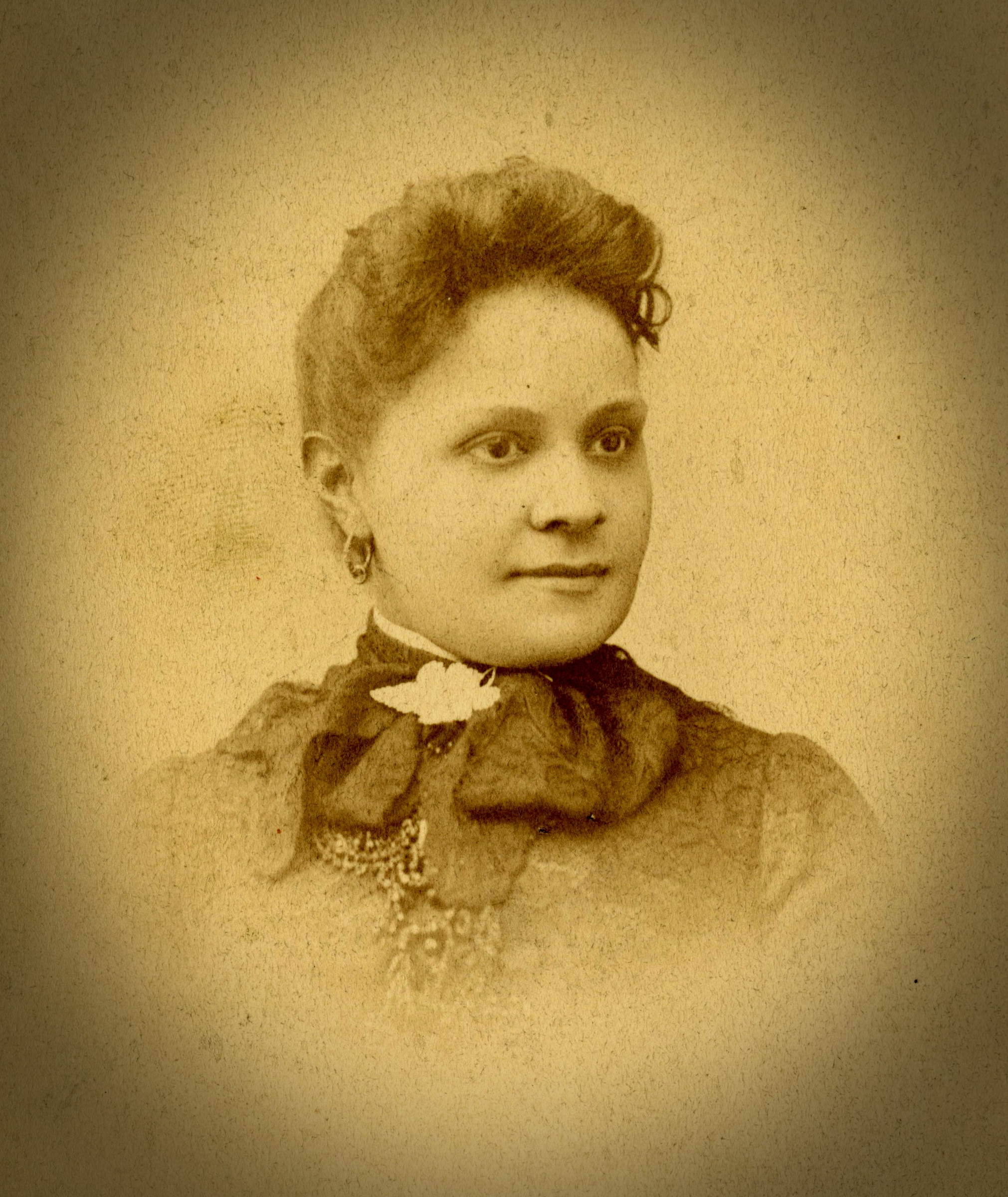 This image is of Fannie Barrier c1880, the exact date and photographer are unknown.